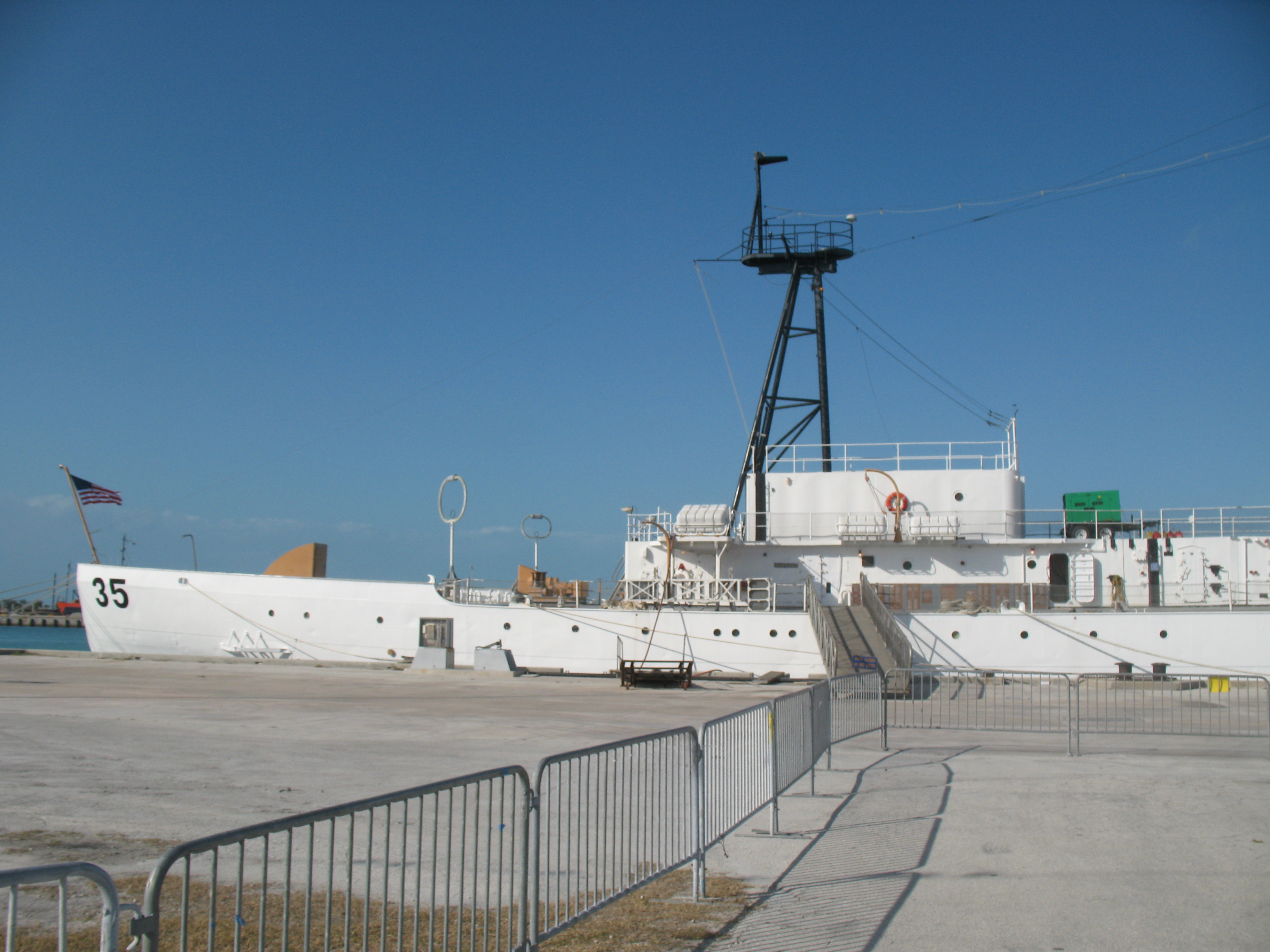 USCGC Ingham (WHEC-35), A photo of the cutter Ingham in January 2010.